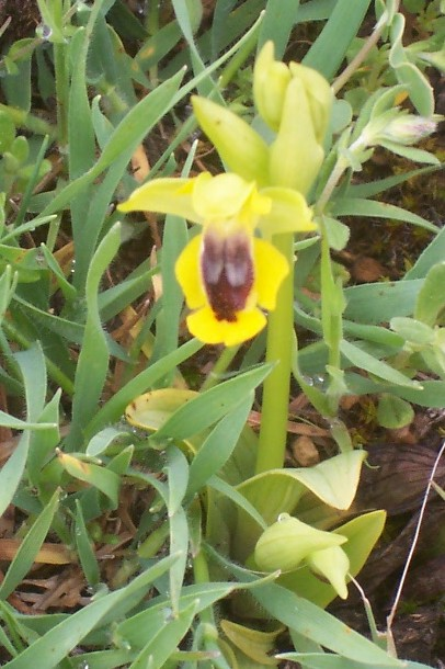 Ophrys lutea at Soto del Real